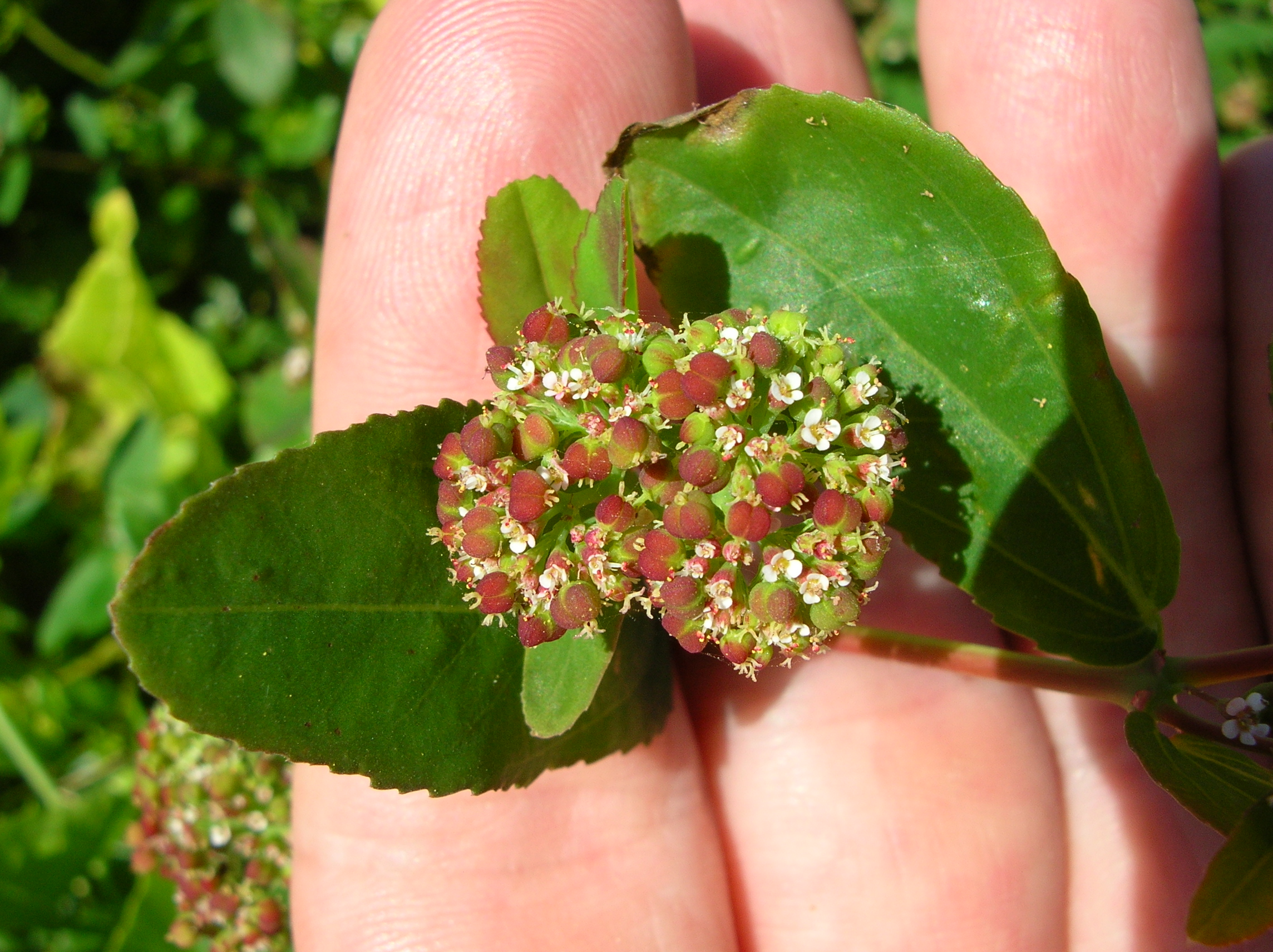 Chamaesyce hypericifolia (flowers and fruit). Location: Oahu, Mokuauia